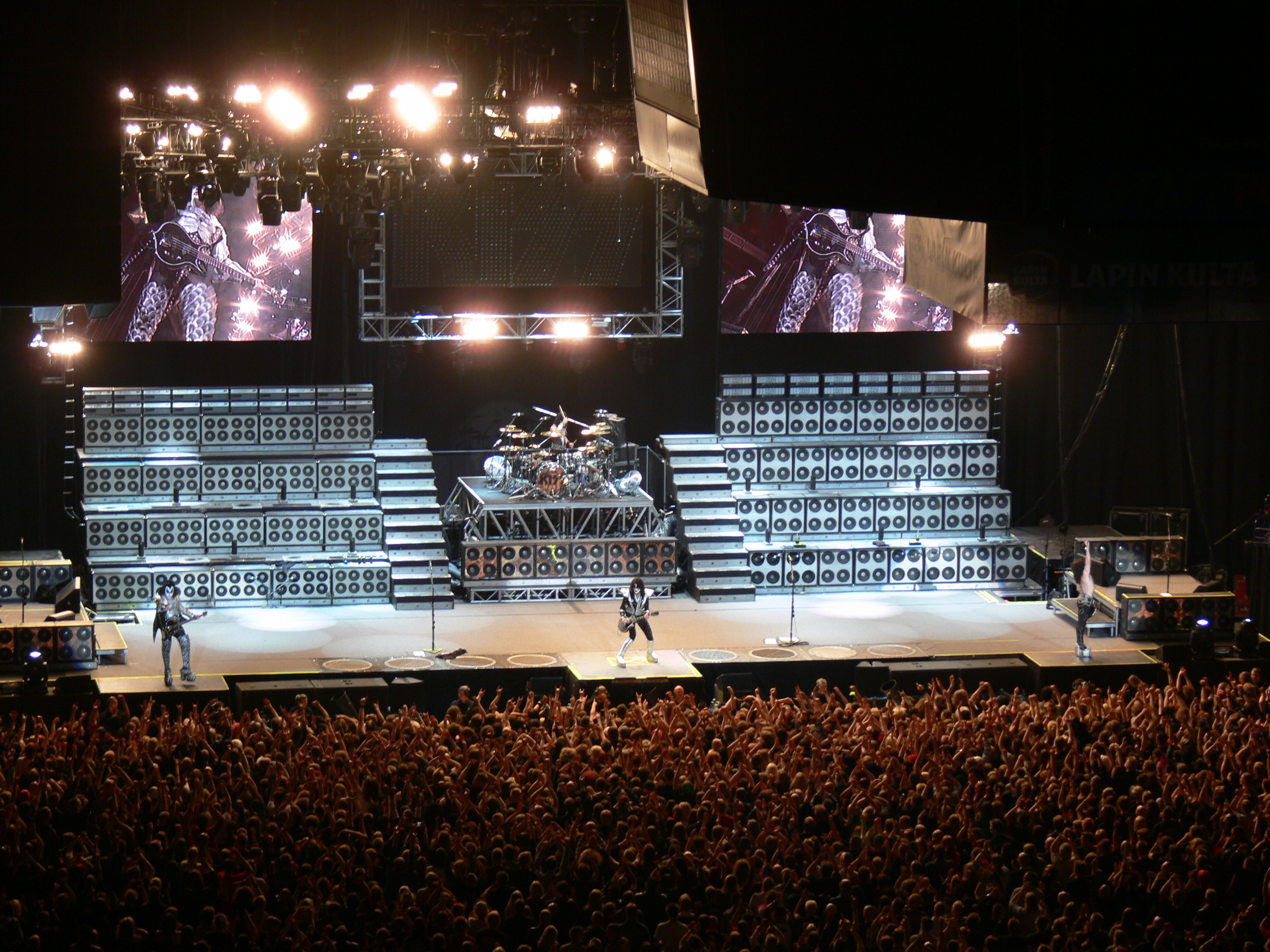 KISS in Helsinki 2008